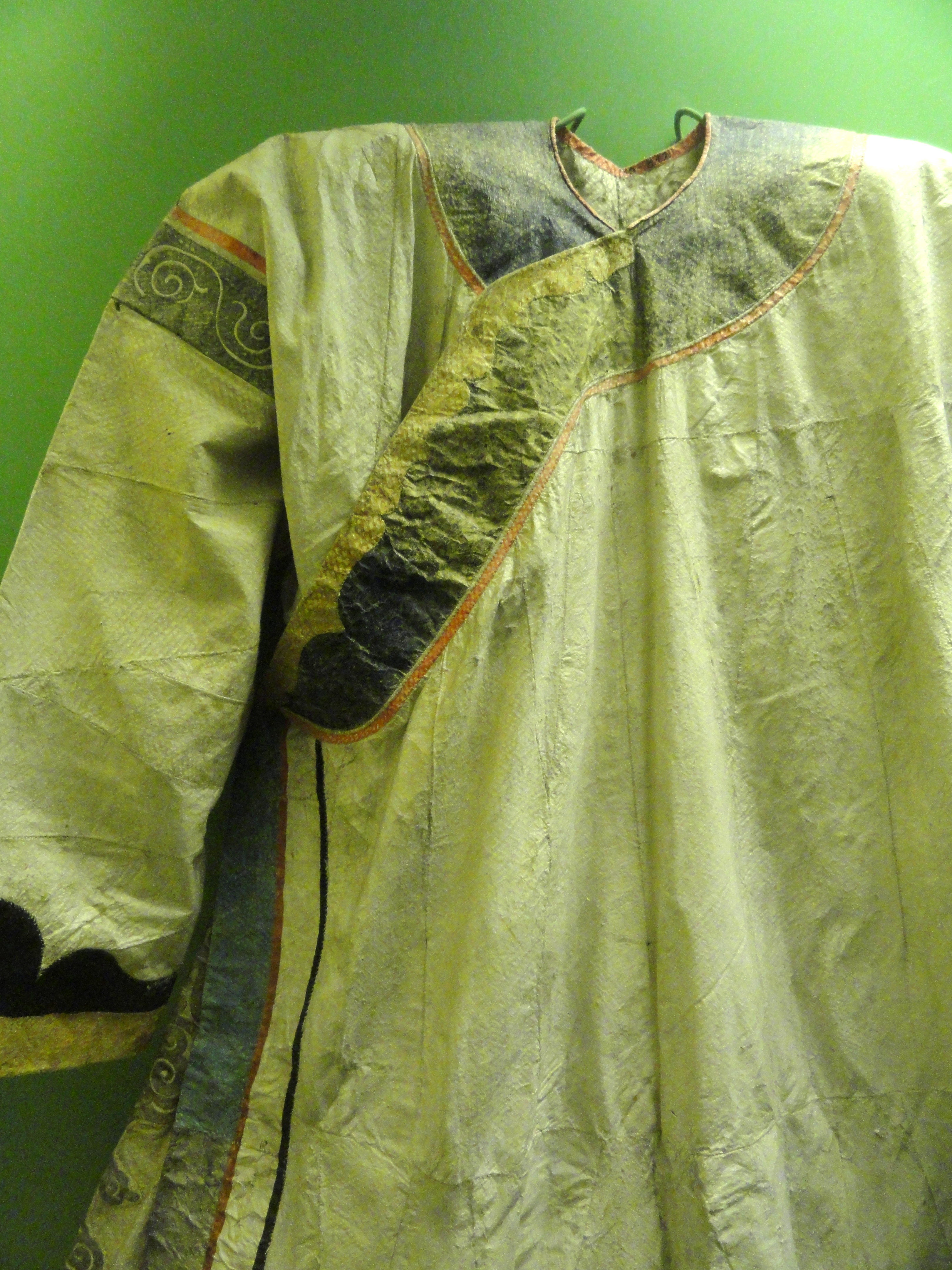 Exhibit in the Asian collection of the American Museum of Natural History, Manhattan, New York City, New York, USA.